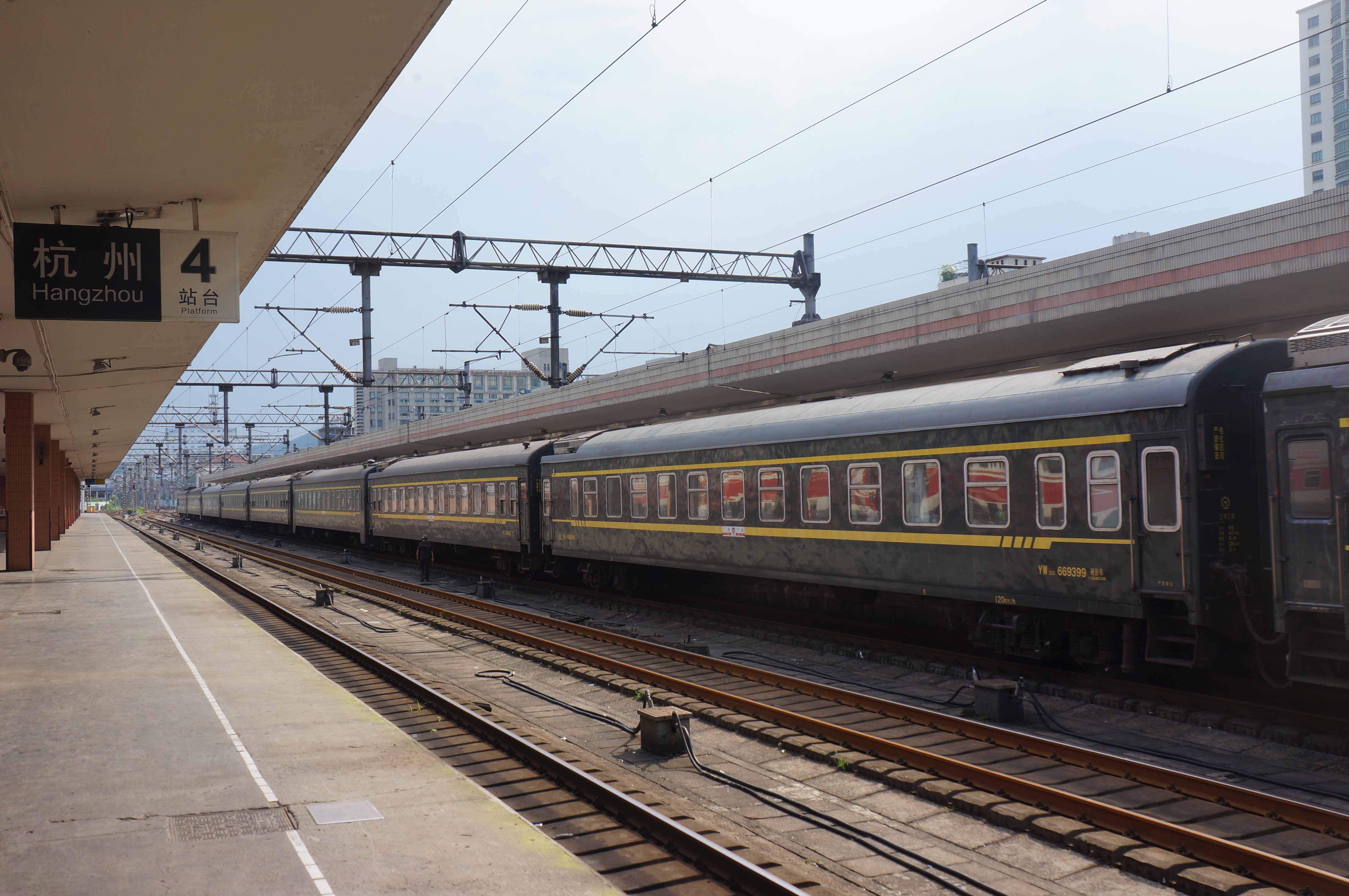 201608 Coaches of K1040 from Ningbo to Lanzhou at Hangzhou Station